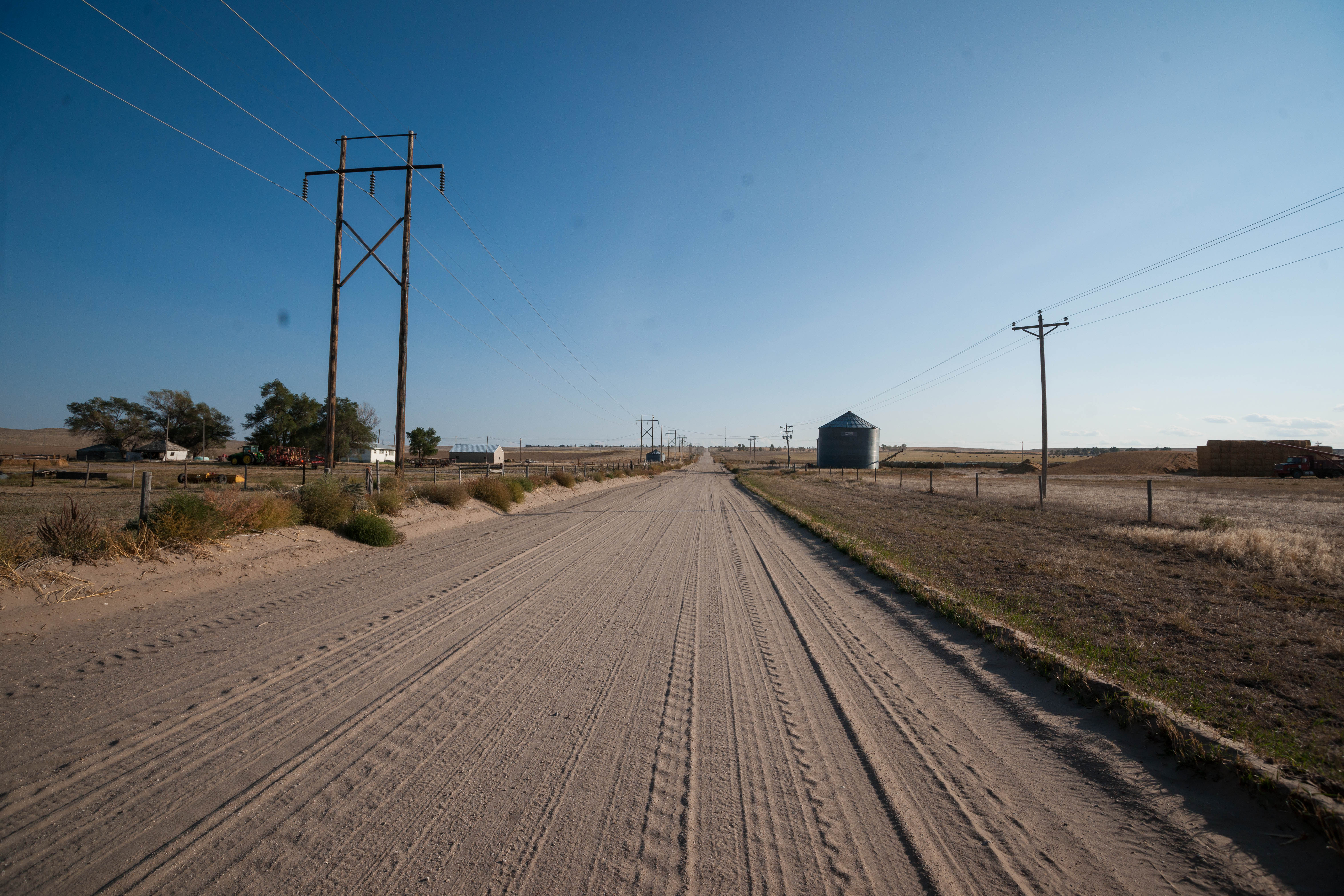 From